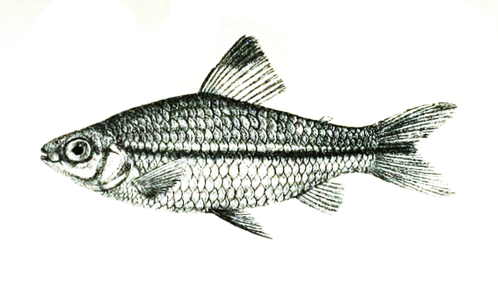 Oneline Tetra